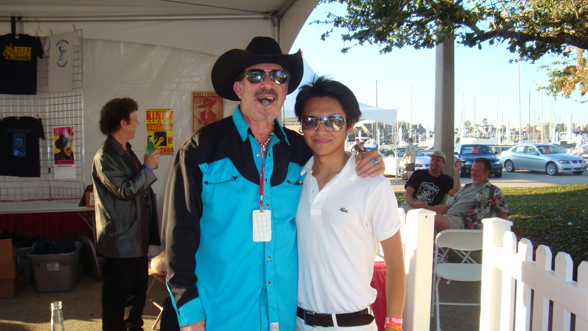 Kinky Friedman and Michael Blake-Perales